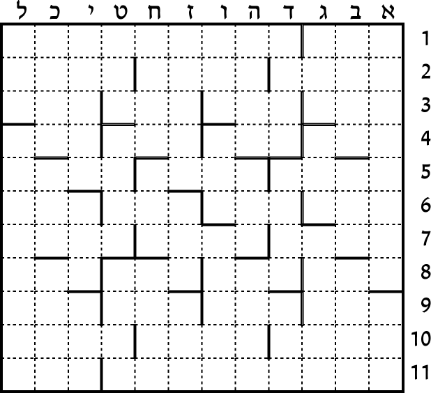 a new italian crossword.png